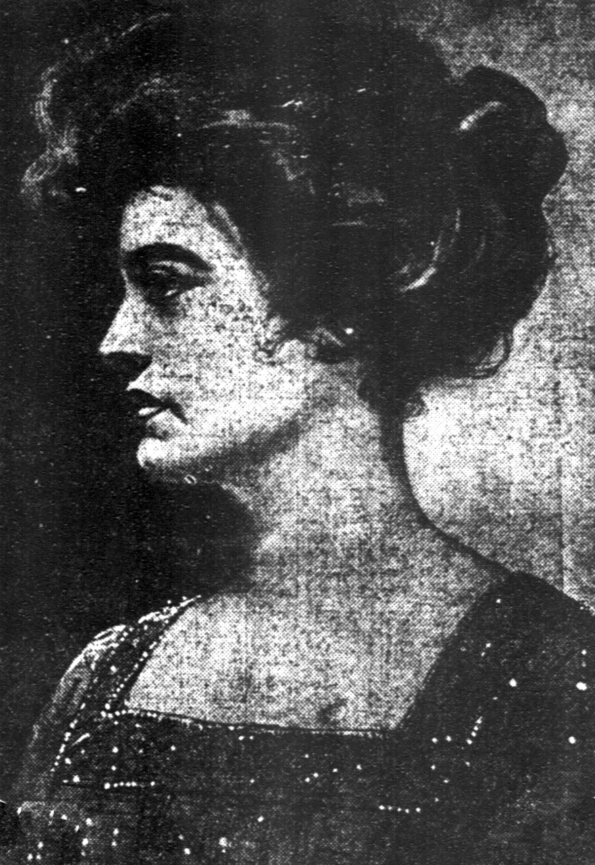 Martha "Mamah" Borthwick (June 19, 1869 - August 15, 1914) is primarily noted for her relationship with Frank Lloyd Wright, which ended when she was murdered. This image is from a newspaper article about their relationship scandal. Original caption: Frank Lloyd Wright, the esthetic Oak Park architect, is not a bit worried by the fact that a complaint has been filed by the residents of Spring Green, Wis., against him and his spiritual mate, known a Mamah Bouton Borthwick, the former Mrs. Edwin H. Cheney, with whom he is holding a "spiritual communion" in "Love Castle" in the Wisconsin hills.